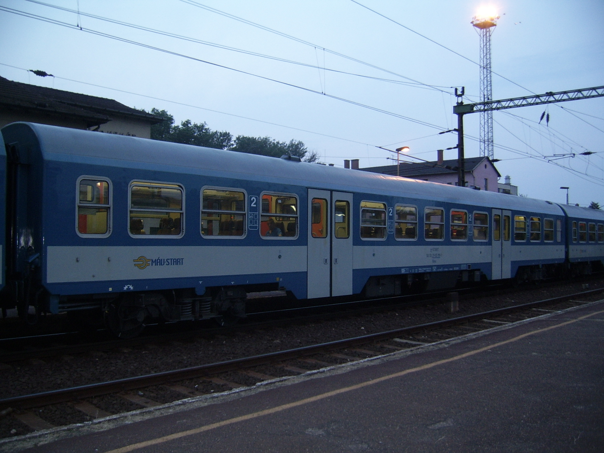 Type Bmx railway couch as part of the no. 7009 interregional train in Kecskemét, Hungary